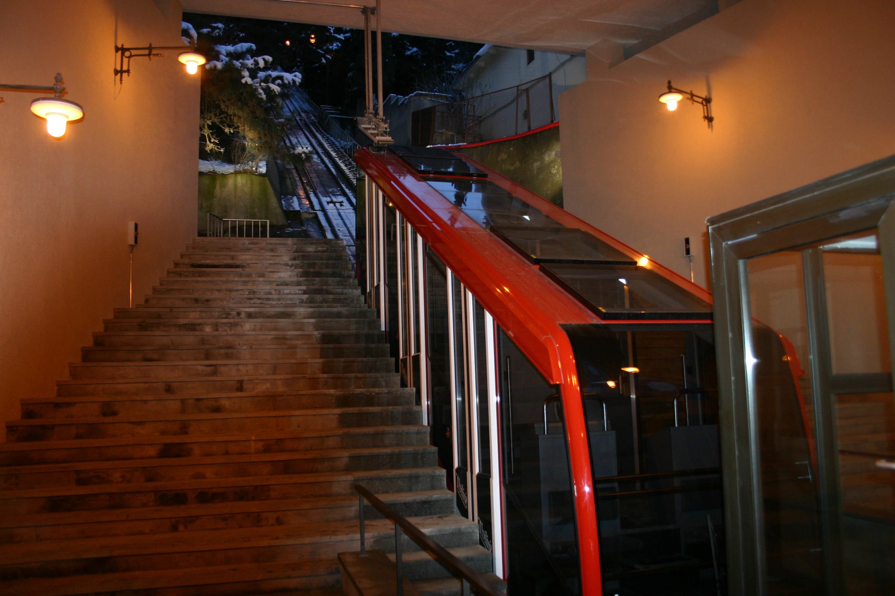 The Funicular of Tbilisi in January 2013, a couple of weeks after it was reopened in December 2012